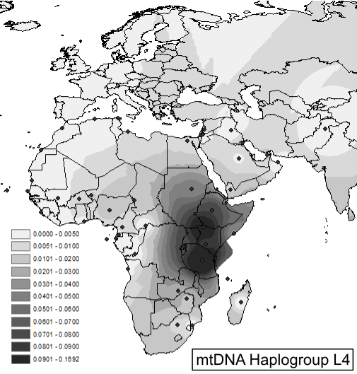 Frequency maps based on HVS-I data for mtDNA haplogroups L4.